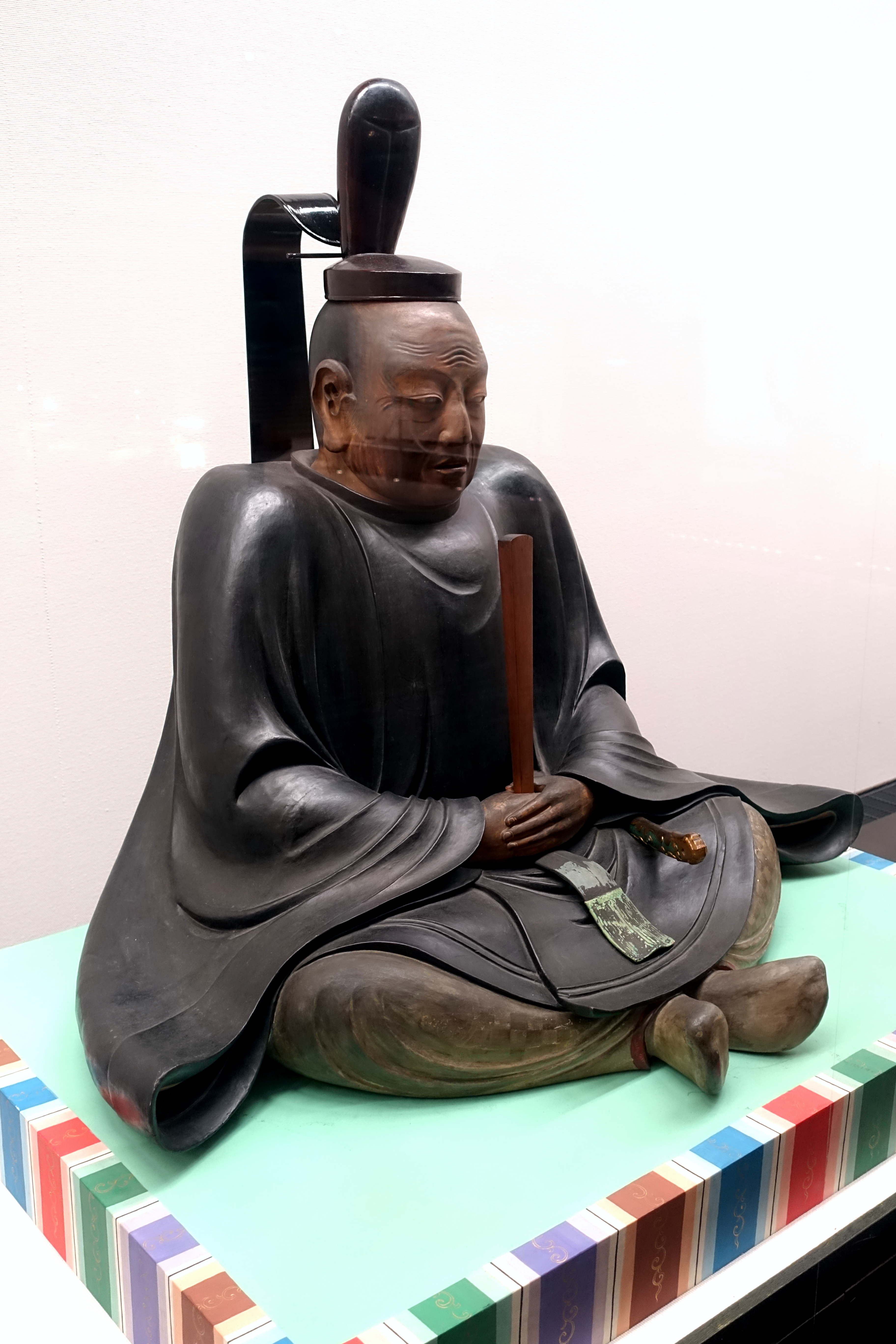 Tokugawa Ieyasu, lifesize statue, 1601 AD, wood - Edo-Tokyo Museum - Sumida, Tokyo, Japan.